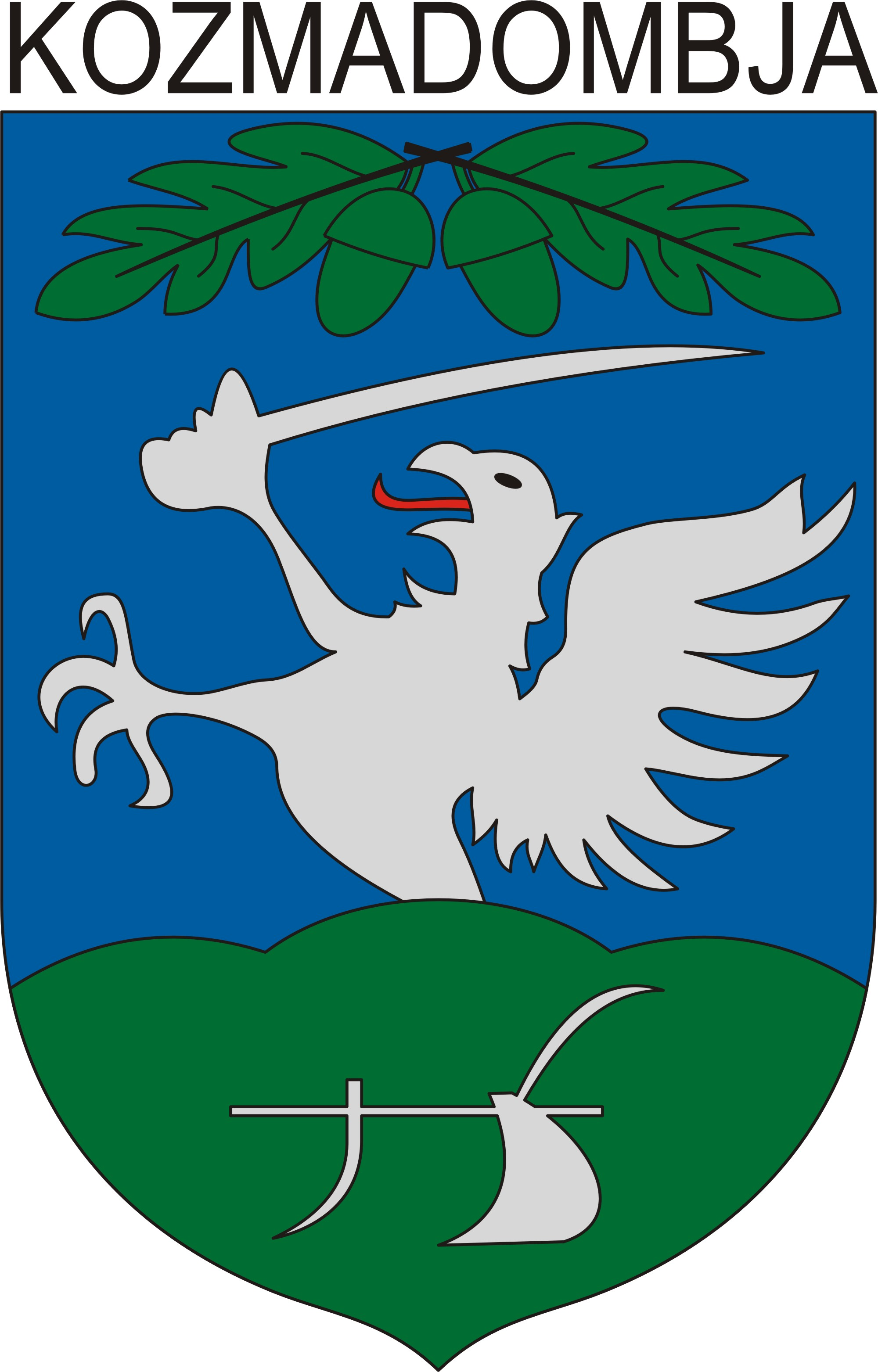 Coat of arms of Kozmadombja, Hungary